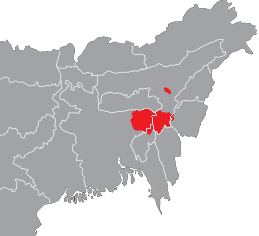 Sylheti-speaking zone in South Asia.